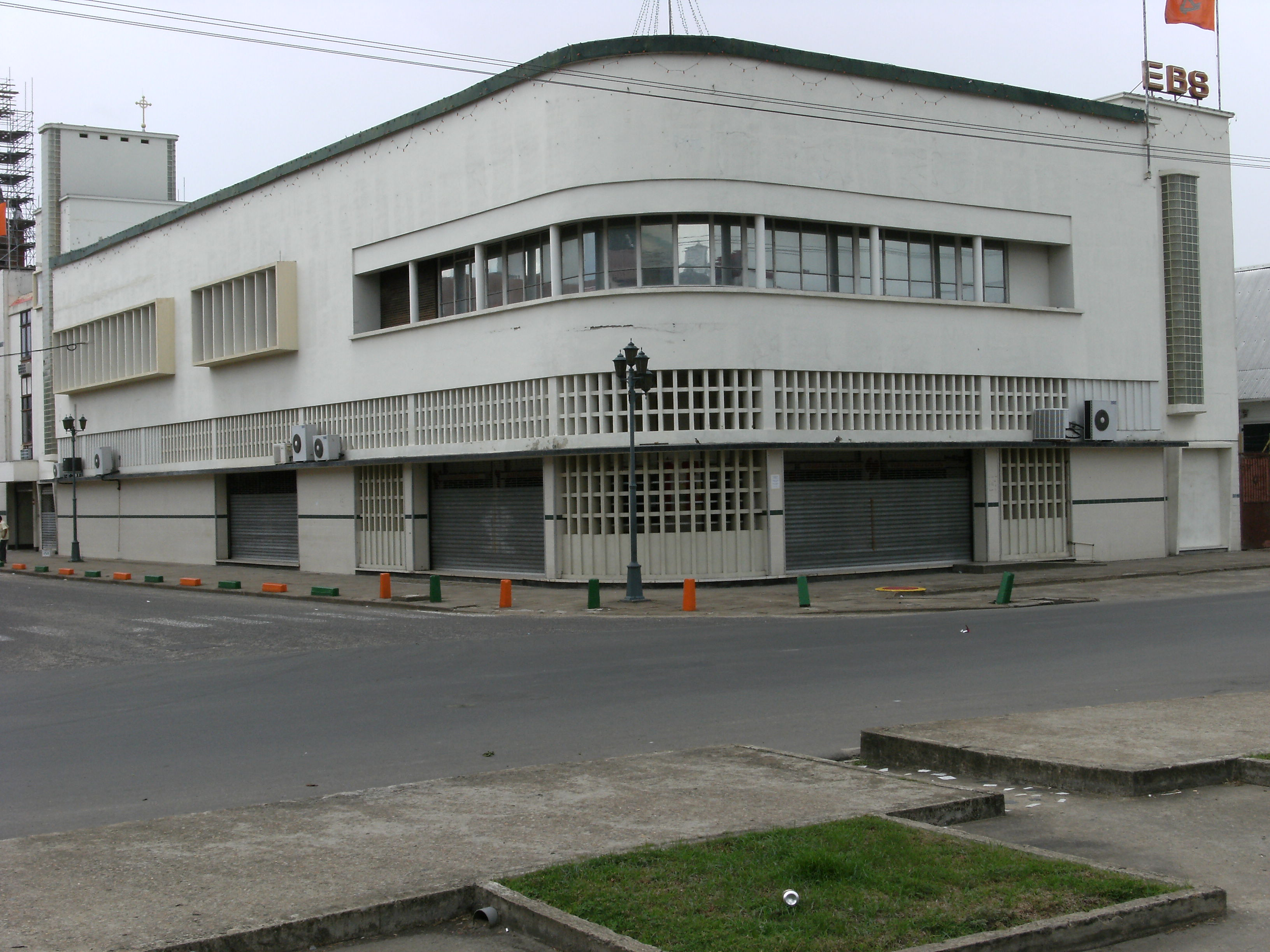 EBS building Paramaribo.